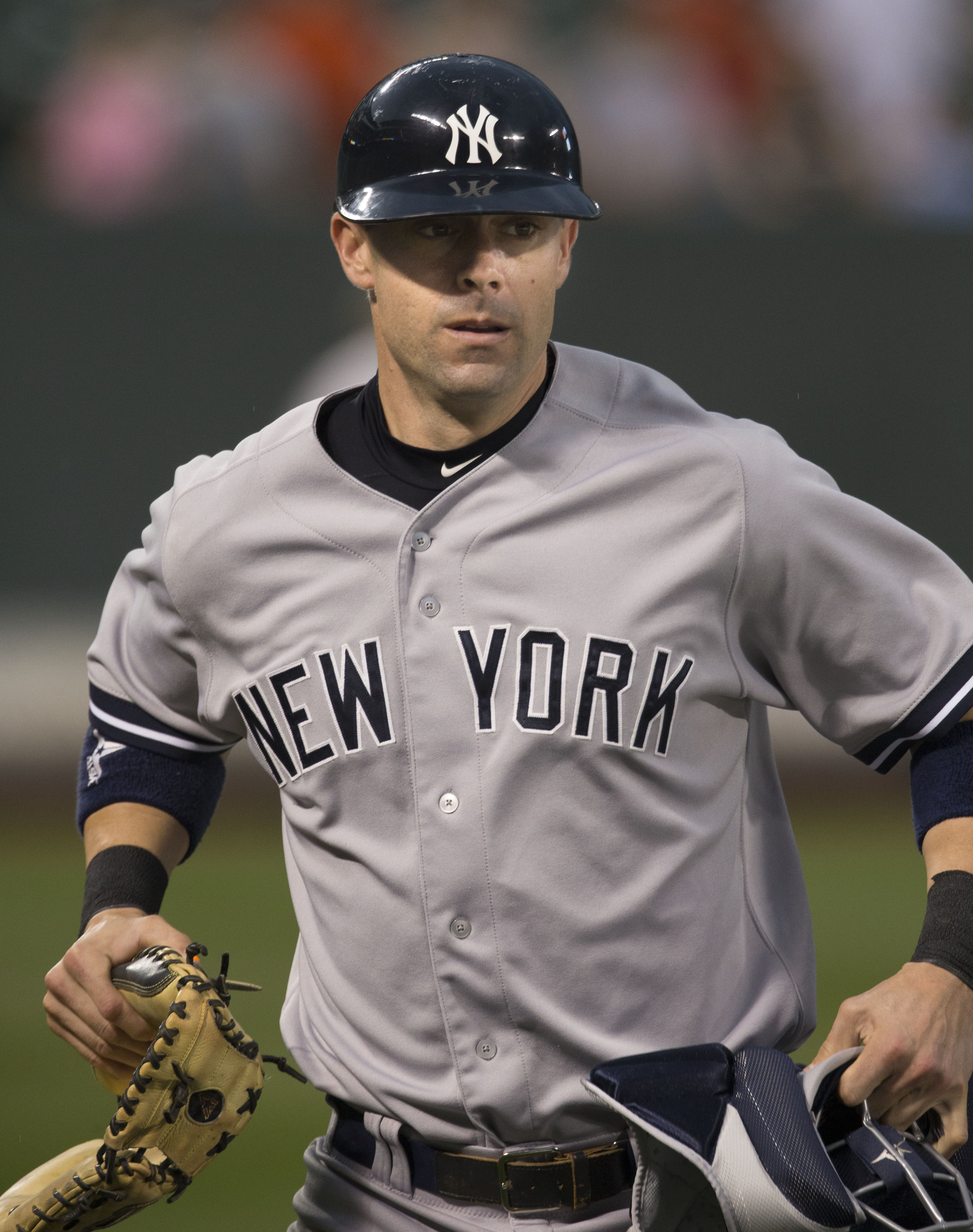 Chris Stewart - Yankees @ Orioles - Sept-12-2013